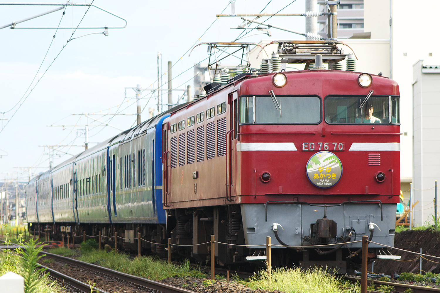 JR Kyushu Class ED76 electric locomotive ED76 70 and 24 series sleeping cars on the Naha limited express service between Kami-Kumamoto and Kumamoto Stations. The train headboard is for the combined Naha and Akatsuki service.